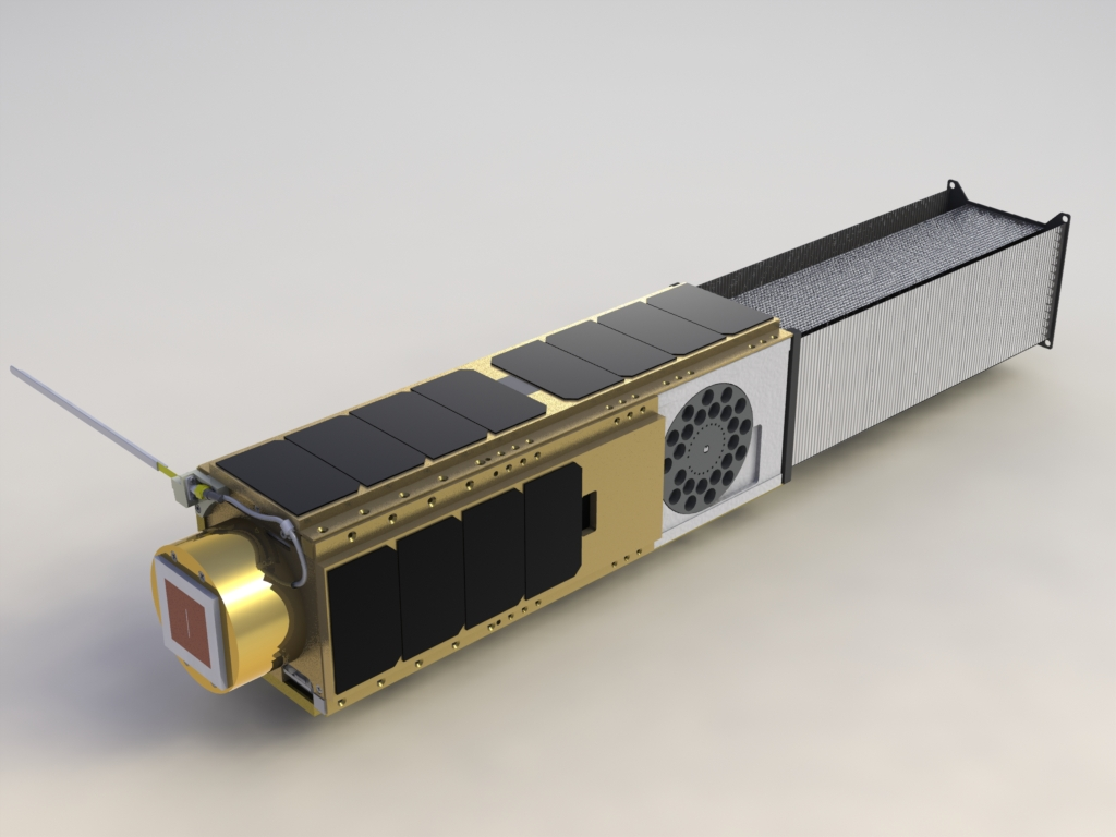 CAD Drawing